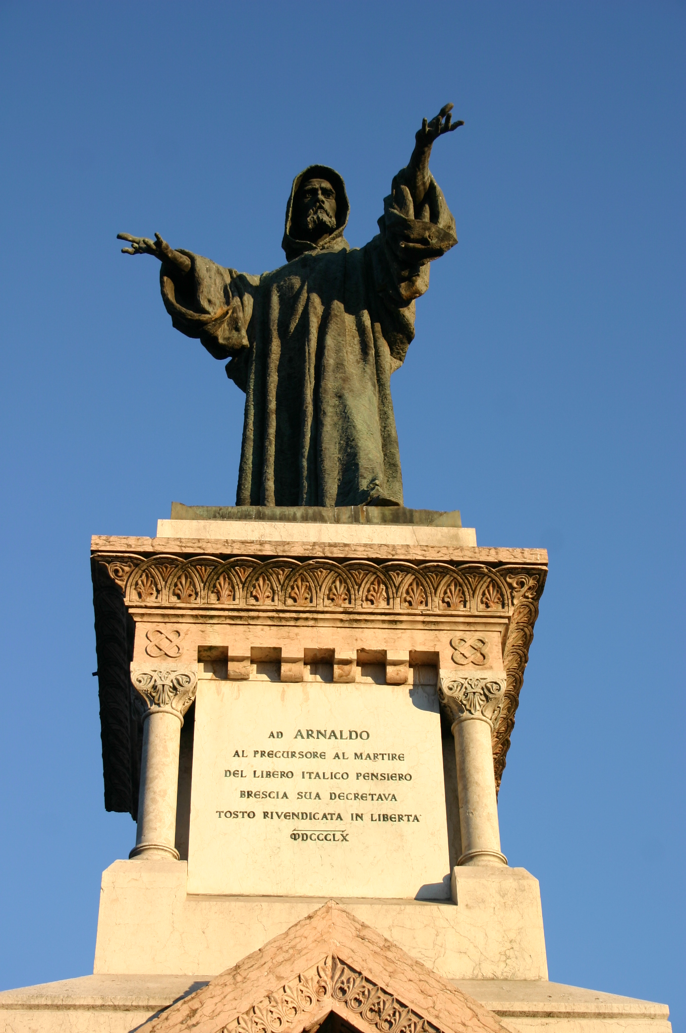 Odoardo Tabacchi (1836-1905), detail from the Monument to Arnold of Brescia in Brescia (Italy) (inaugurated in 1882). Picture by Stefano Bolognini. The marble base was sculpted by Antonio Tagliaferri (1835-1909).